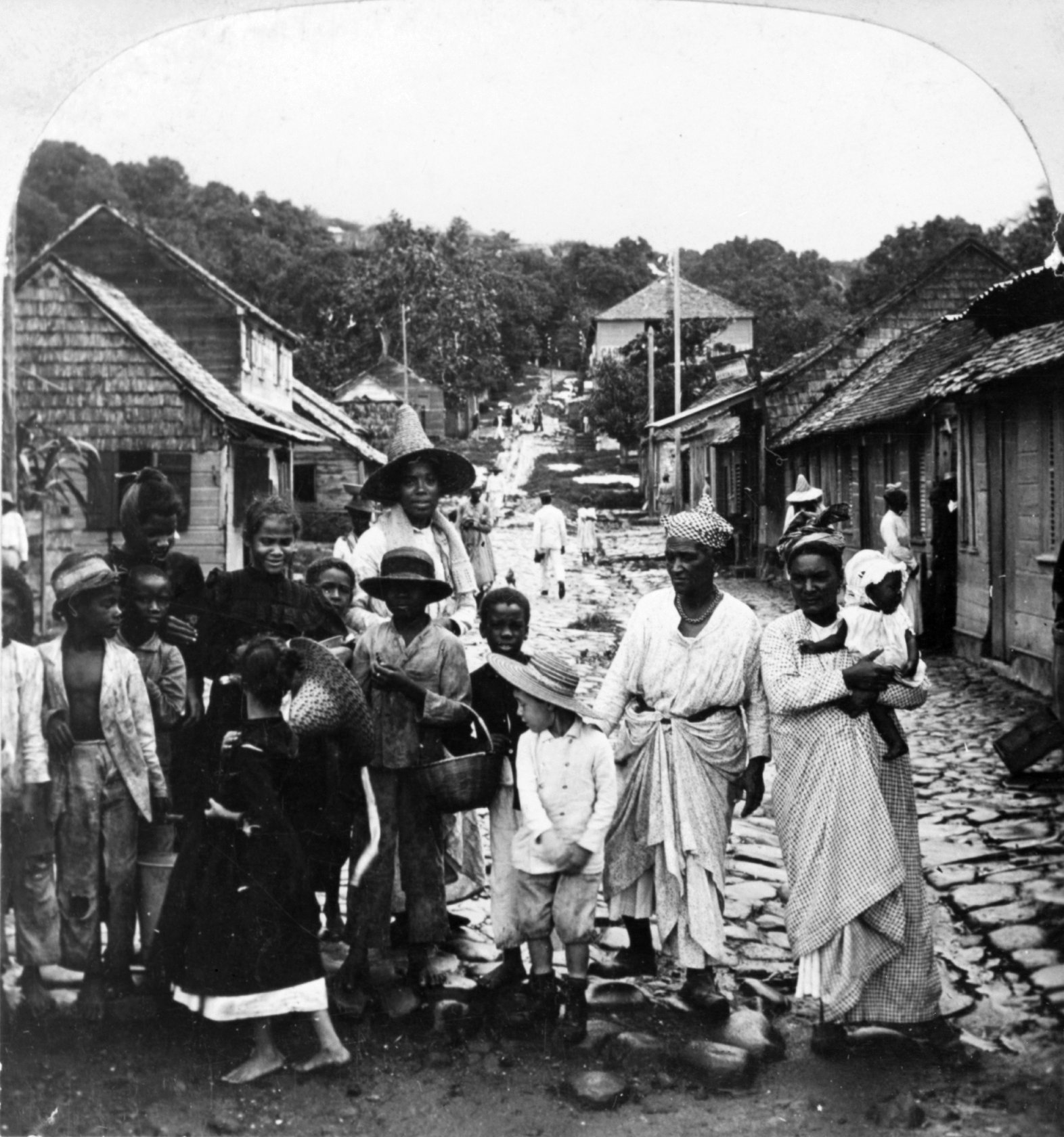 A group of refugees on Rue du Pavé, Fort de France - Martinique, following the eruption of Mount Pelée in 1902. Left half of a stereoscope card.